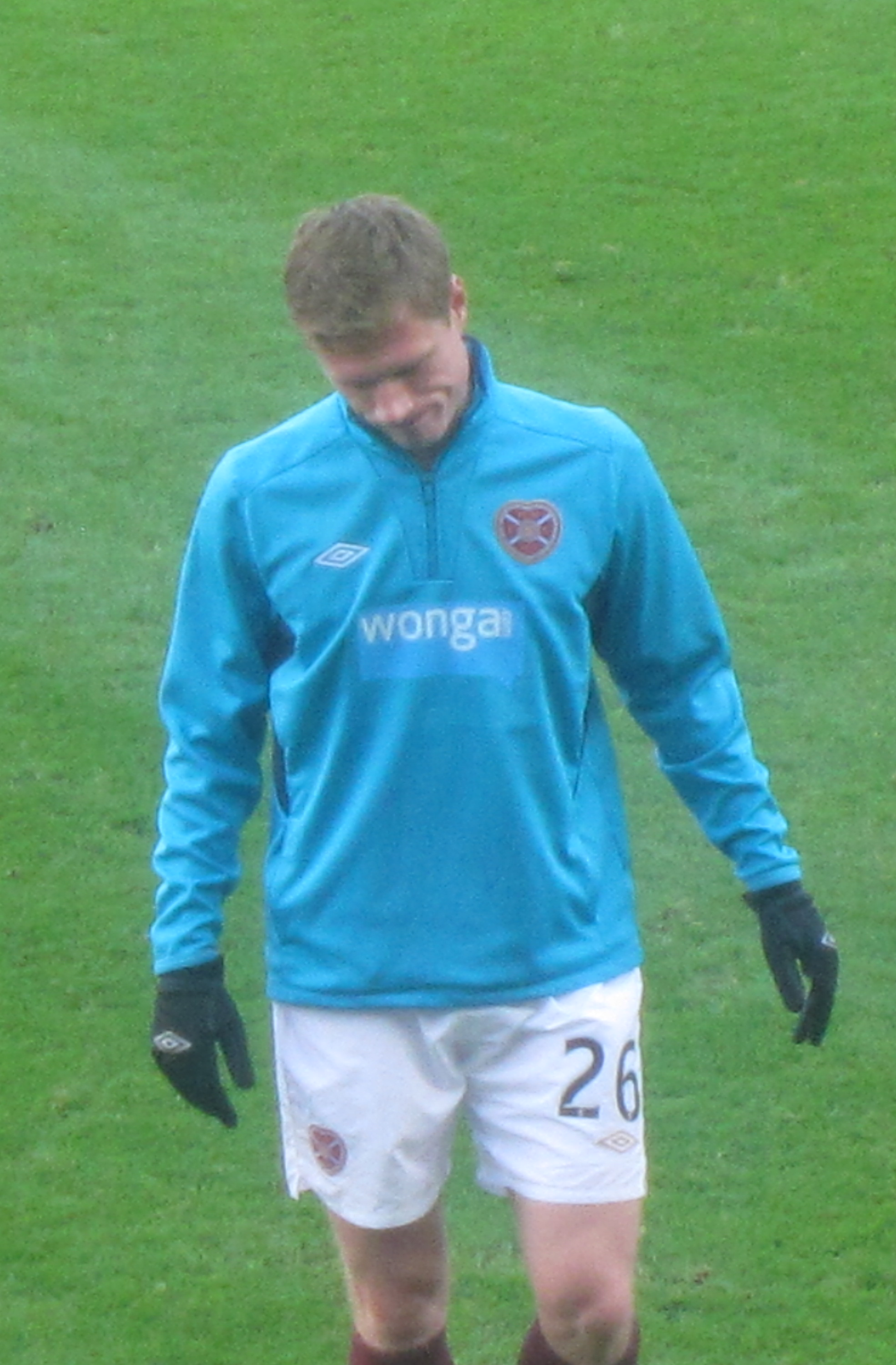 Marius Zaliukas Hearts v Kilmarnock 29 October 2011 (cropped version)